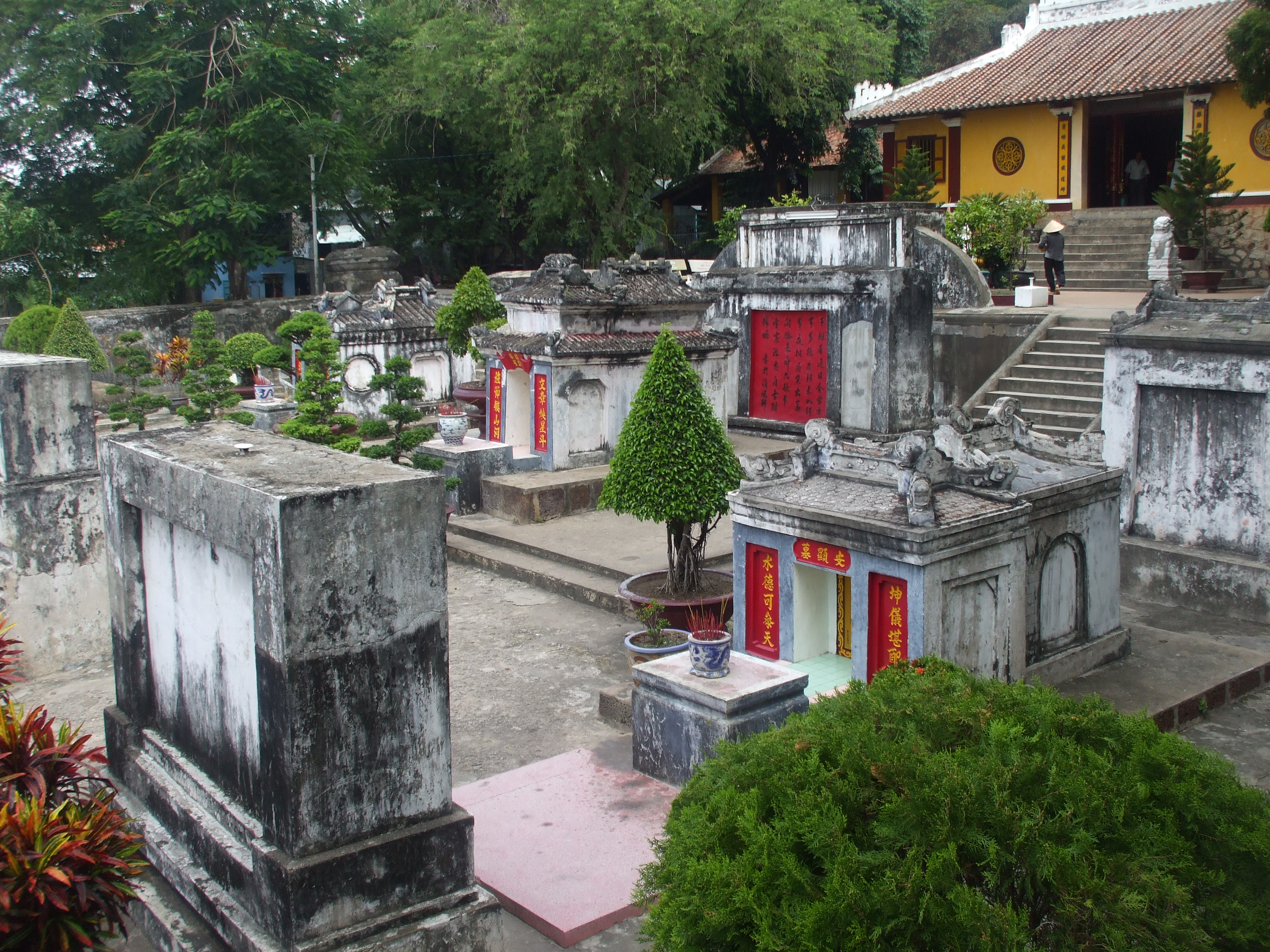 Tomb for Thoại Ngọc Hầu on the Mt. Sam (Châu Đốc, An Giang, Việt Nam).